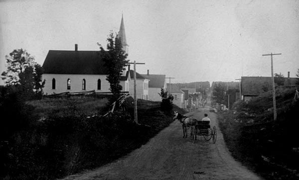 The main street of Canterbury, New Brunswick, at the begining of the 20th century.